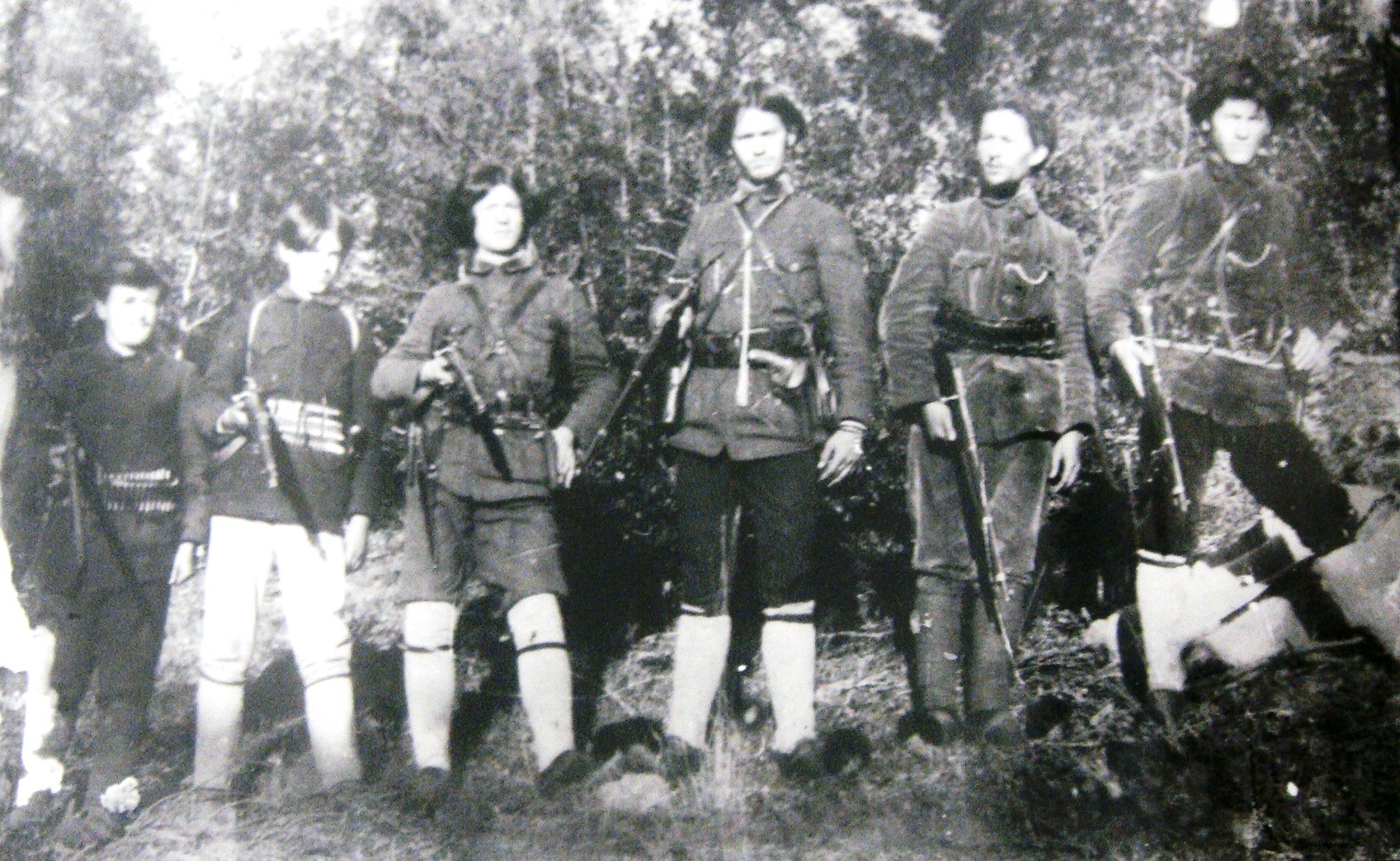 Voivode Spiro from Belkamen, with a group of his Vlach fighters. Third from the left is Mihaly Belkamen. Photo taken near the village Belkamen, 1905/1906 year. (Damaged plate) This media file is produced by Wikipedian in Residence in Category:Wikipedian in Residence at DARM in 2016.